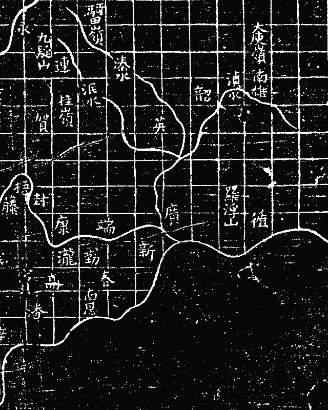 Detail of Guangzhou and the Pearl River delta from the Yuji Tu, with the coloring of the original rubbing restored